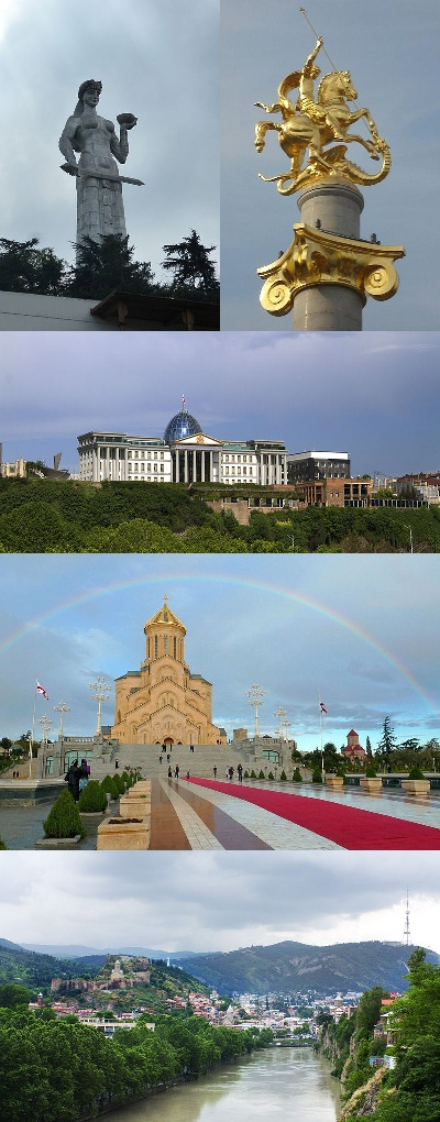 Kartlis deda St George Monument Presidential Palace Holy Trinity Cathedral Mtkvari river